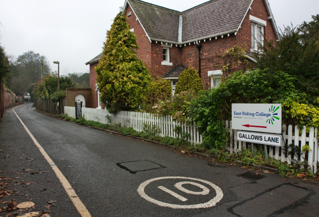 Gallows Lane, Beverley IMG_3856